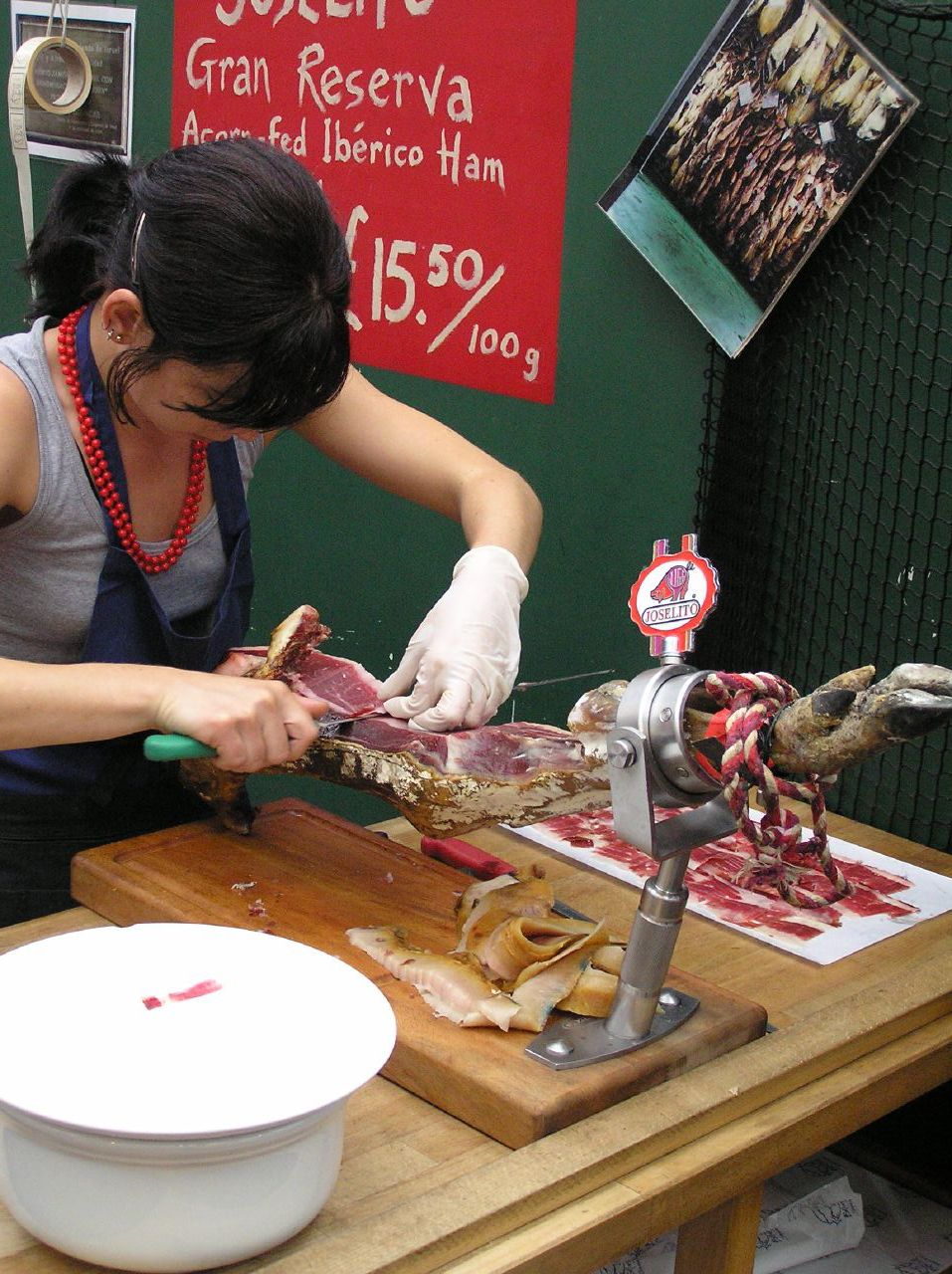 "Acorn-fed Joselito Ibérico Ham" (Jamón Ibérico de Bellota "Joselito"), sold at ￡15.50 per 100 grams, at a market in London, England. It is an Iberian (Spanish/Portuguese) delicacy: Ham made from the acorn-fed black Iberian pig. In this case, this ham belongs to D.O. de Guijuelo (Salamanca, Castile and León).